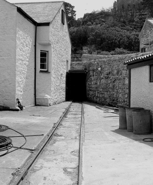 A railway in a most unusual place Railways do not usually appear in places like St. Michael's Mount, a small island off the Cornish coast, but this short line runs up from (almost)sea-level, underground on a steep incline, to serve the priory at the summit. It is not accessible to passengers. There is just one item of rolling stock, a freight car which is hauled up and let down by cable, taking supplies up and rubbish down. Whether the cable is wound up manually or electrically I do not know. This small length is all that is visible to the public. What appeared to be a spare cable was lying at the side. The gauge of the railway appears to be about 3 feet.